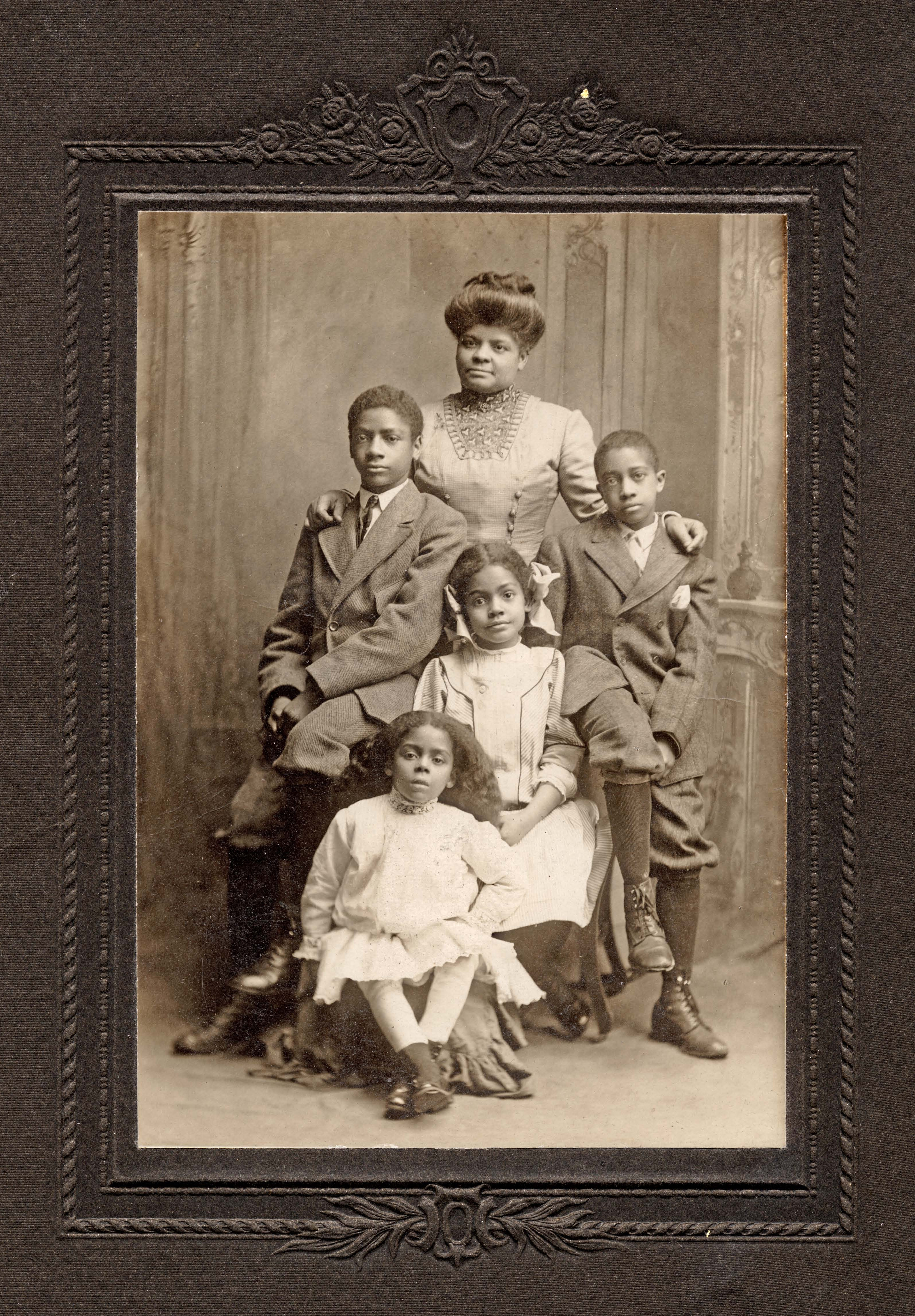 Photo 6: Ida B. Wells-Barnett with her children Charles, Herman, Ida, and Alfreda, 1909, 13.7 x 9.5 cm.